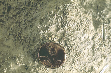 Caption from KGS website: This sample of the colonial coral Cladochonus is from the Beil Limestone Member, Lecompton Limestone, Greenwood County. This limestone was deposited during the Pennsylvanian Period, about 300 million years ago. Other information From copyright page: The user is granted the right, without any fee or cost, to access, link to and use, publish, distribute, disseminate, transfer, or in any manner alter, modify, revise, copy, edit, or digitize this information. It is unlawful to falsely claim copyright or other rights in KGS material. The user must include an appropriate citation crediting the source of all or any portion of this website and its contents as follows: "The source of this material is the Kansas Geological Survey website at All Rights Reserved." If the user does reuse or redistribute information contained on this site, the user acknowledges that KGS or its affiliates, retains a nonexclusive, royalty-free, perpetual, irrevocable, and full right to use, reproduce, modify, adapt, publish, translate, create derivative works from, distribute, and display the original information throughout the world in any media. KGS expressly disclaims the applicability of the Uniform Computer Information Transactions Act (UCITA).